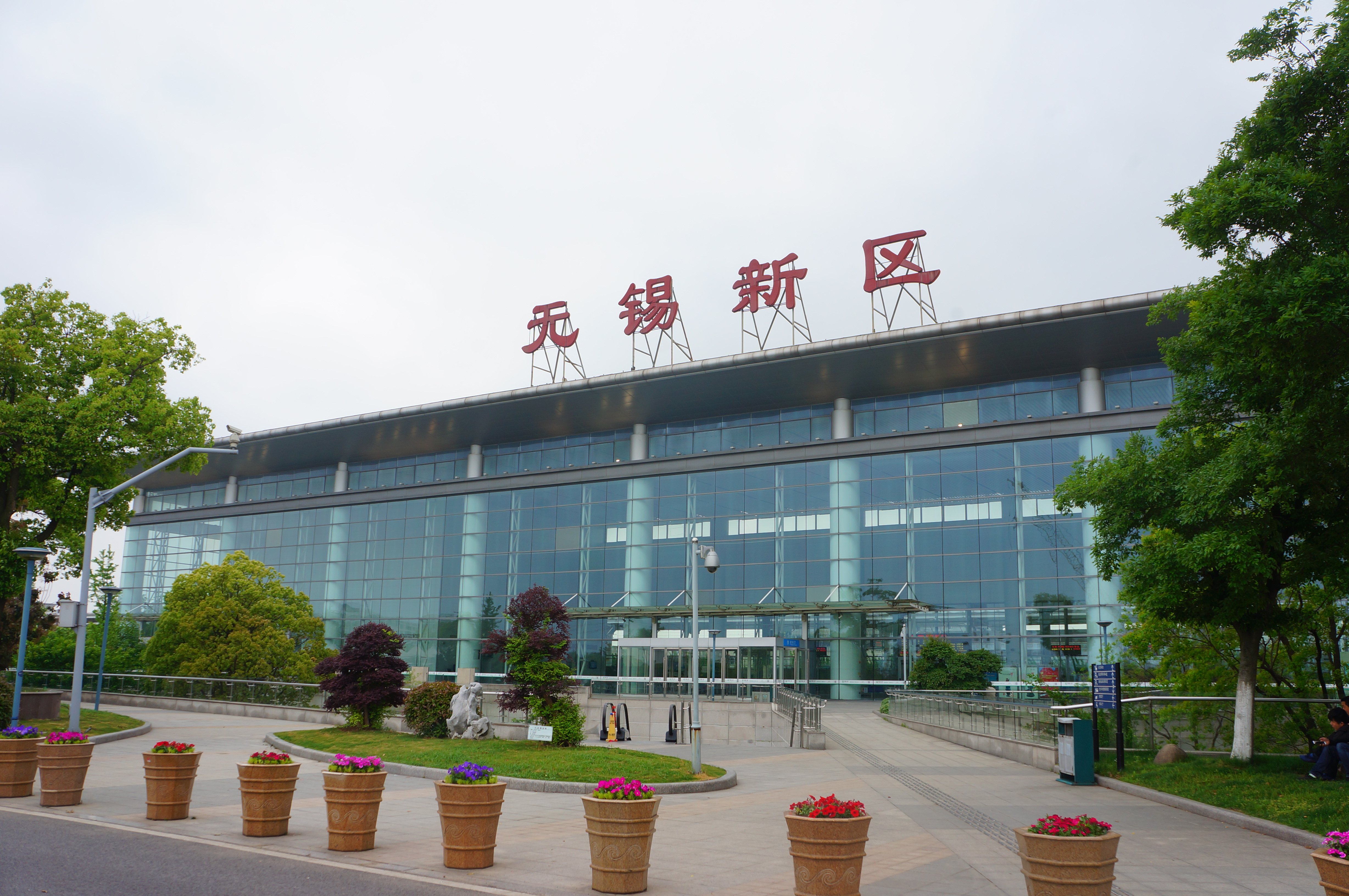 201705 Facade of Wuxi Xinqu Station